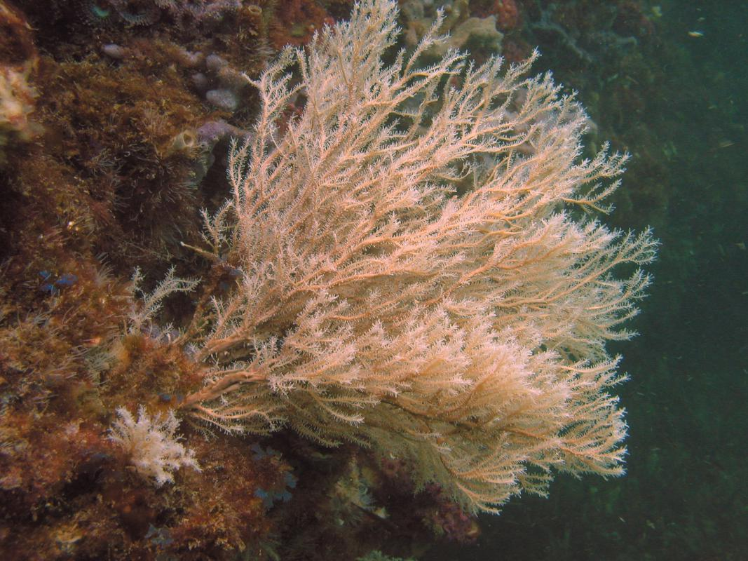 In situ photograph of hydroid (Hydrozoa) Solanderia sp. at Site 12, Houhora Harbour channel rock, Northland. 5 m depth.